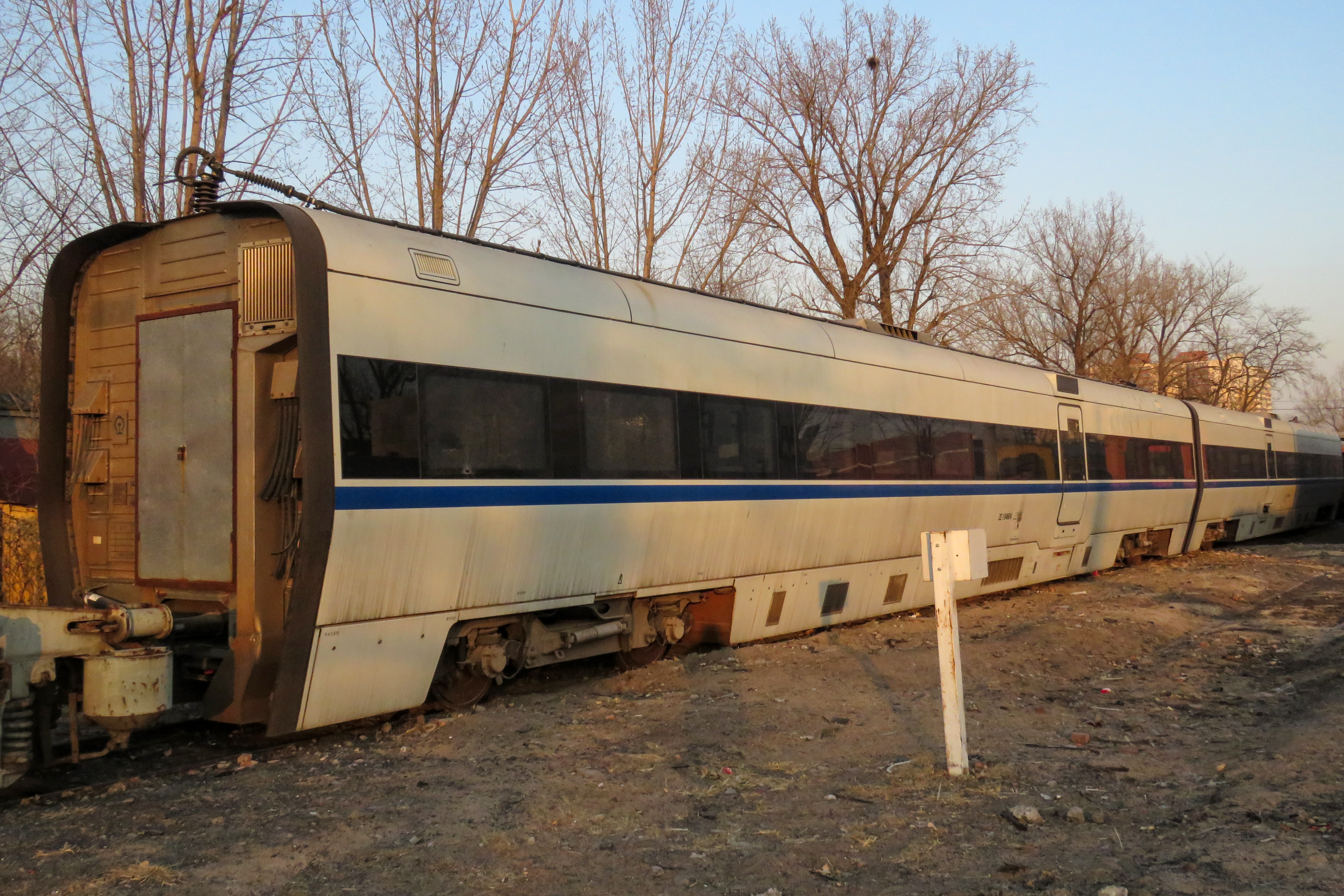 Stored at Fengtai Locomotive Depot for rescue training. It is said some carriages of CRH2-139E were also used for training?